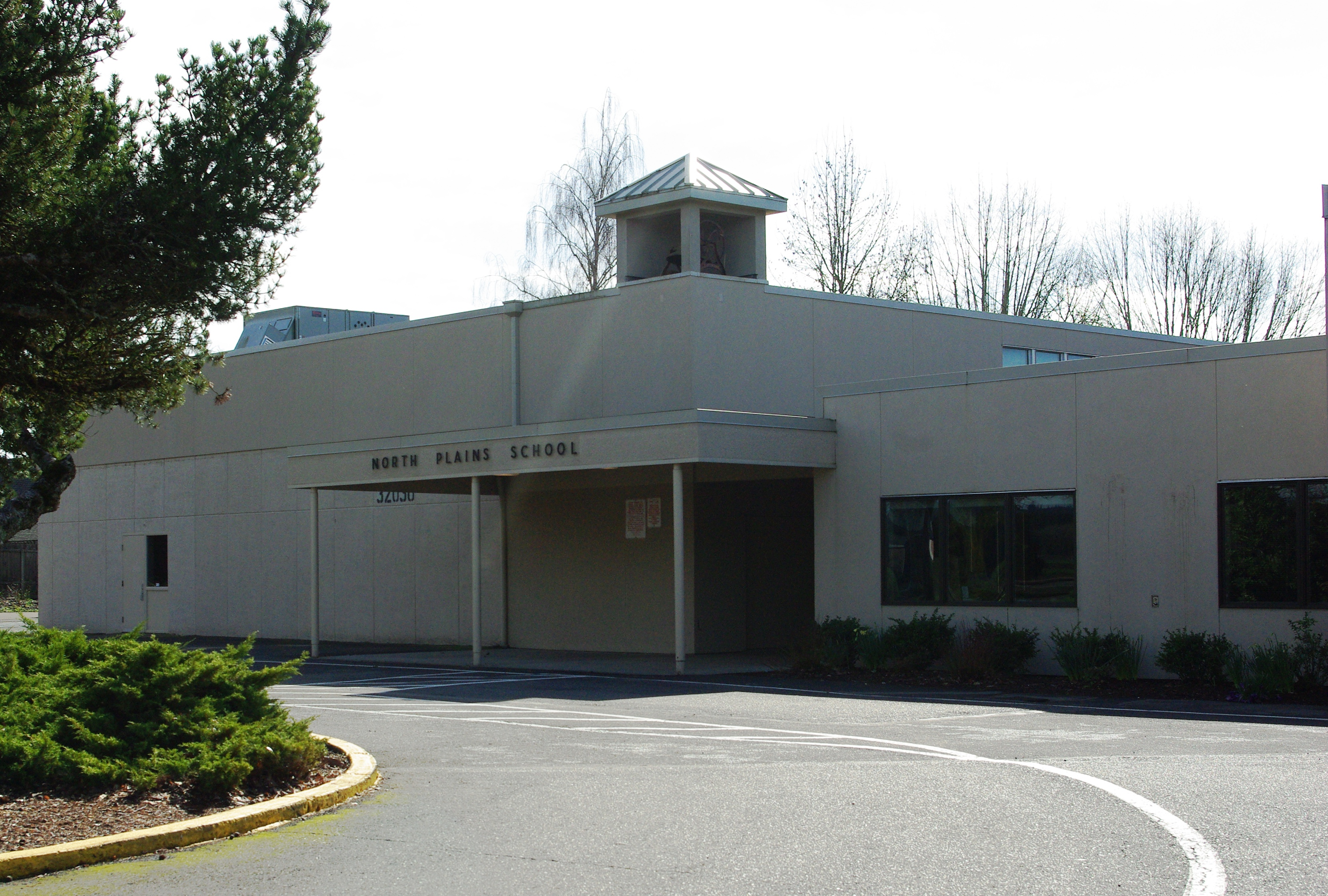 North Plains Elementary School in North Plains, Oregon, USA. Part of the Hillsboro School District.